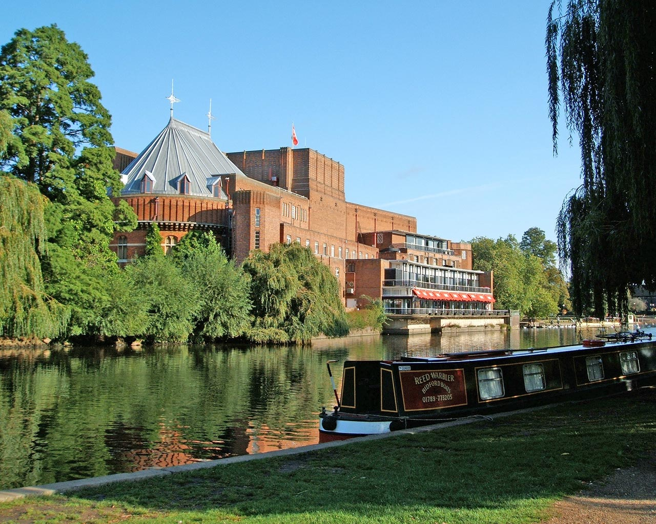 The picture was taken by me on 18th September 2006 with a pocket Fuji Finepix camera. It shows the Royal Shakespeare Theatre at Stratford-upon-Avon, England, as seen from the eastern bank of the River Avon.